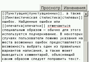 Spell checking in Firefox with Russian dictionary